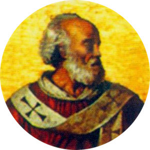 Portait of Pope Boniface II in the Basilica of Saint Paul Outside the Walls, Rome